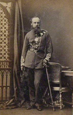 Portrait photograph of traveller Mansfield Parkyns.